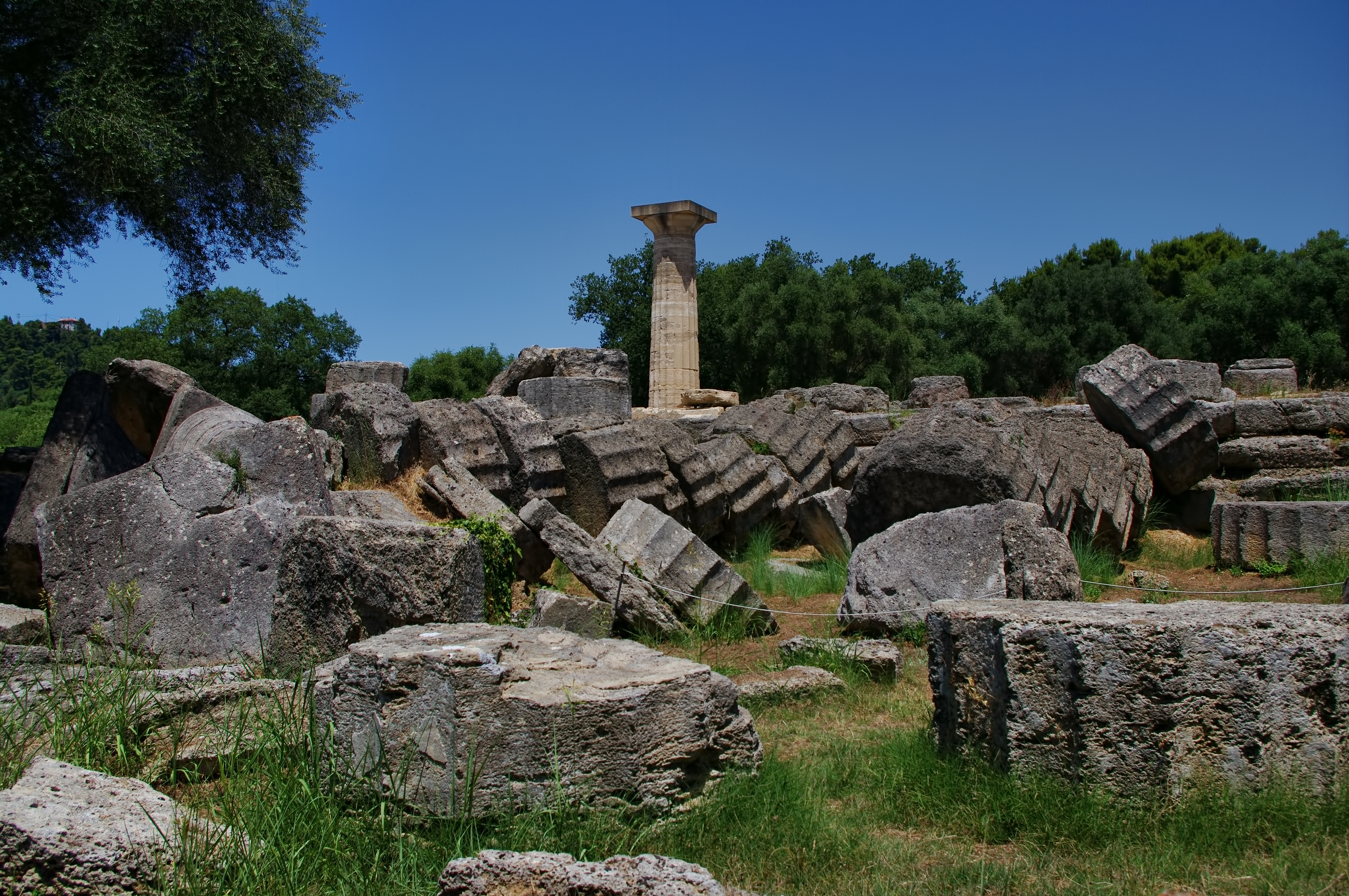 Temple of Zeus at Olympia (Toppled ruins)«Ναός του Δία στην Ολυμπία»